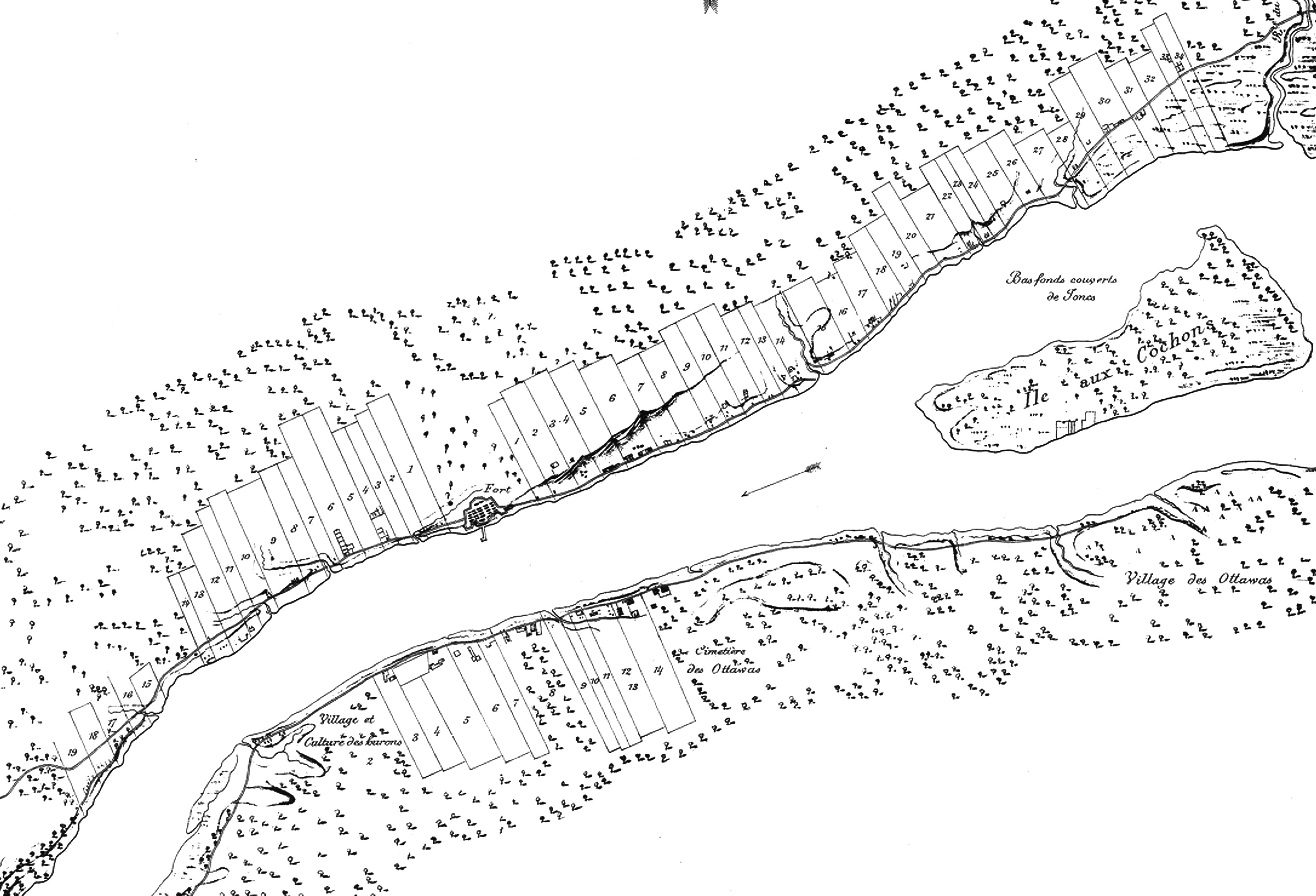 Crop of Napoleonic map made under the direction of George Henry Victor Collot showing surveyed lots around Detroit